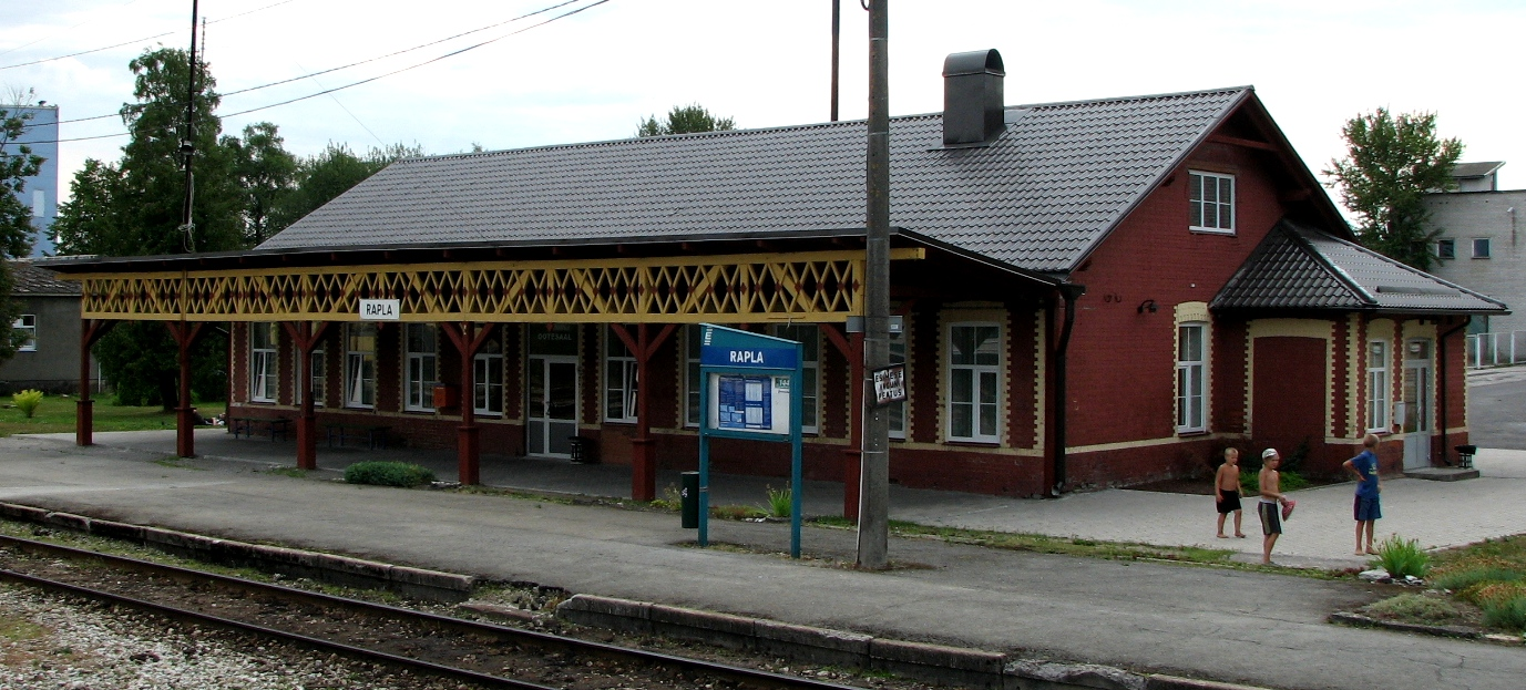 Rapla train station